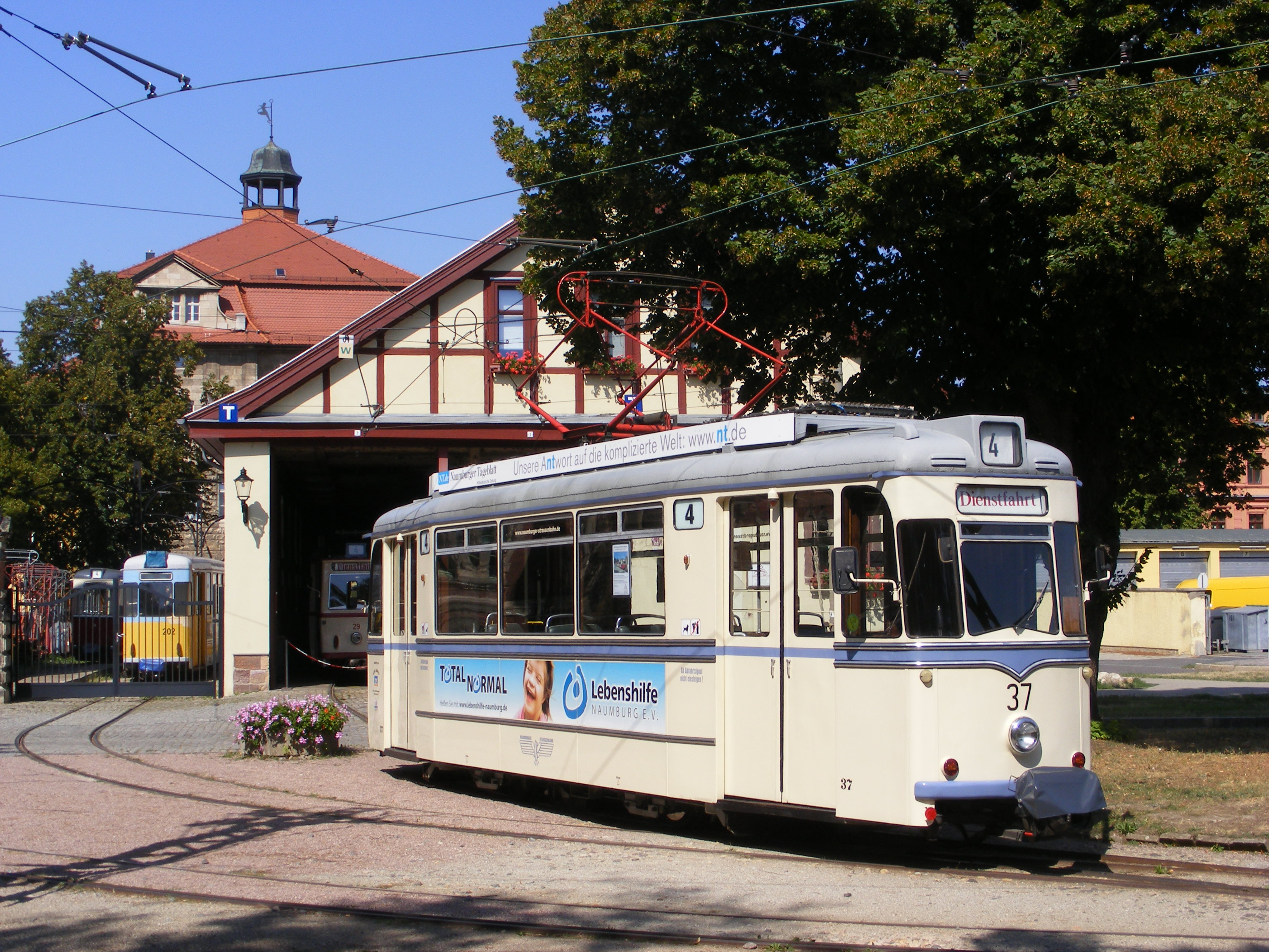 Naumburg tram